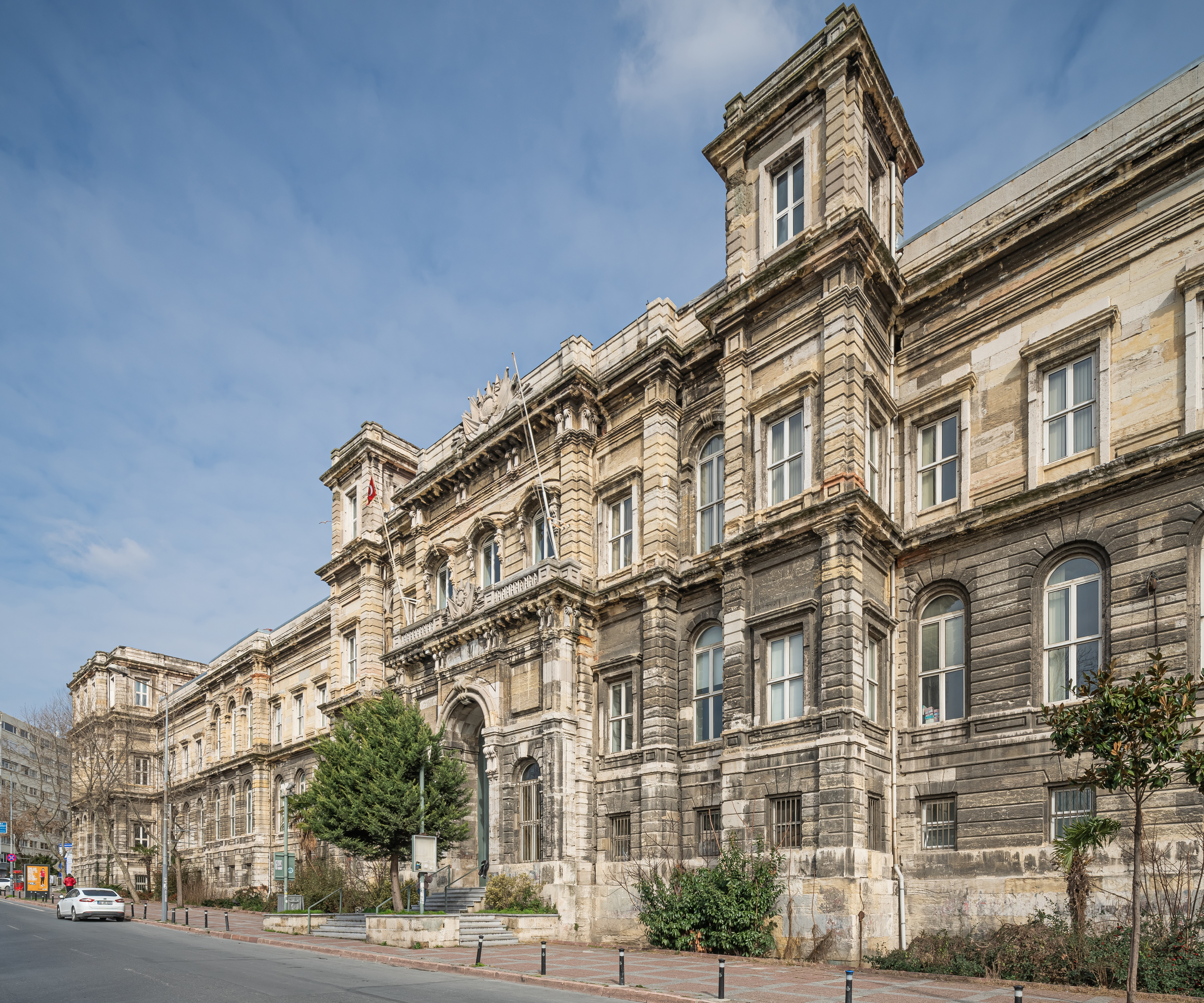 ITU Maçka Campus (Maçka Armory) in Istanbul, Turkey